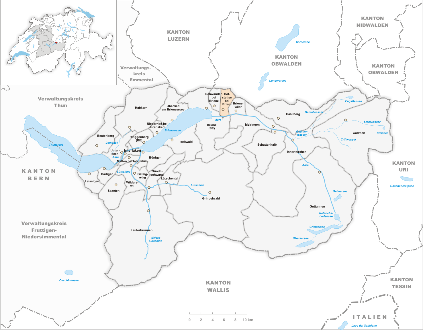 Municipality Hofstetten bei Brienz